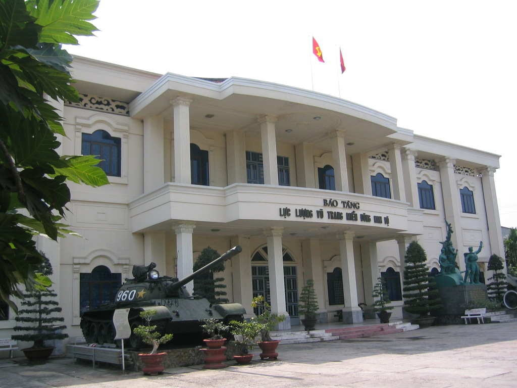 The building shown was originally built to serve as a gym and cafeteria, and was completed in January 1965. Before it could be opened for use, all dependents of U.S. government personnel in Vietnam were evacuated from the country and the school was closed for good. Three months later, the property became the home of the U.S. Army's 3rd Field Hospital, remaining such until 1973. The site was turned over then to the Saigon Adventist Hospital. In 1975, it was abandoned when military forces of North Vietnam captured Saigon. Here it is shown in its current use, as the 7th Military Zone Museum, a unit of the Army Military Museum of the People's Army of the Socialist Republic of Vietnam. It is located at street address 247 Hoang Van Thu near the international airport for Ho Chi Minh City.